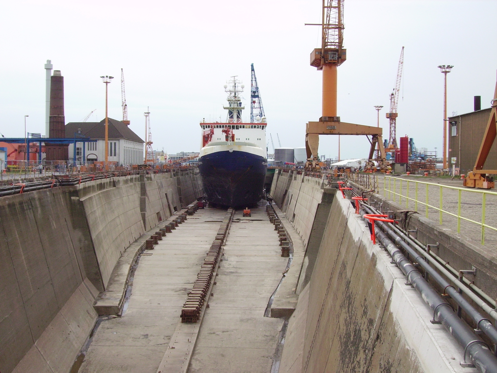 The German research vessel "Polarstern" at the dock of the shipyard Lloyd-Werft